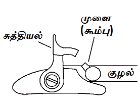 Caplock (Percussion Lock)